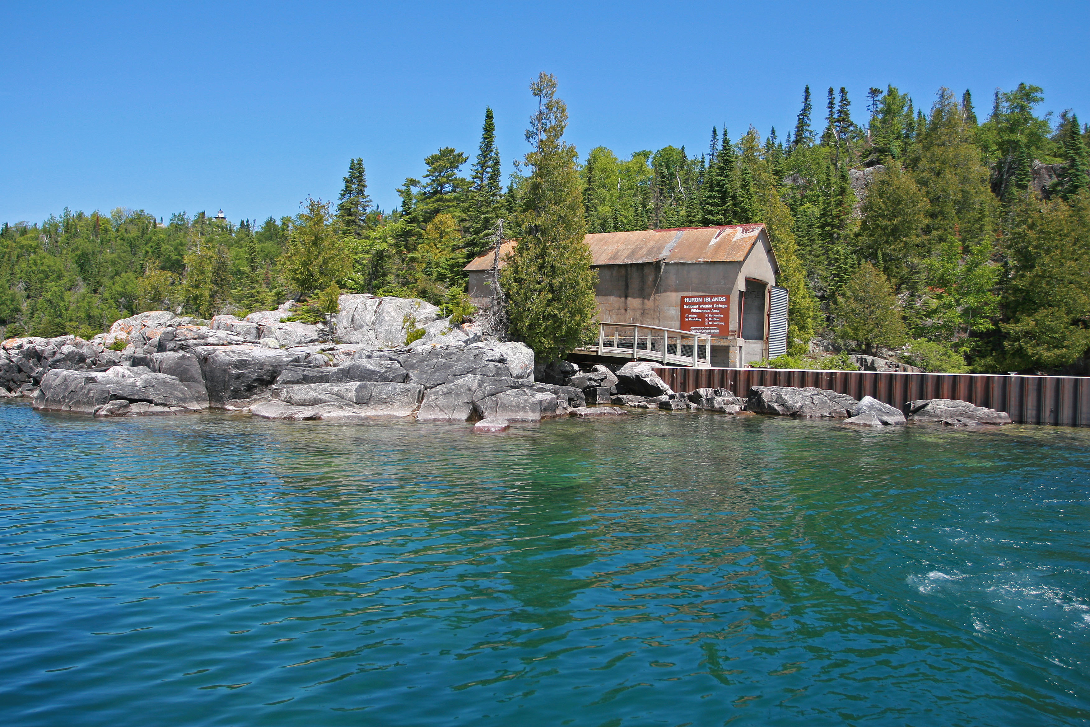 Photo credit: Jeremy Maslowski